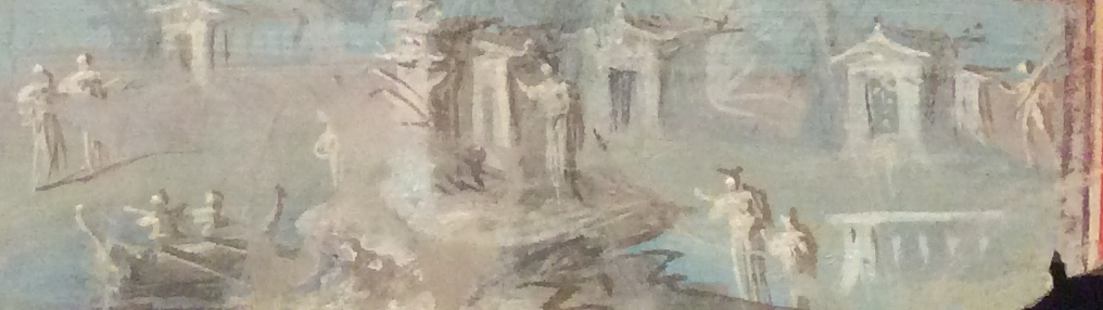 Detail of Roman wall painting of Silenus, showing lansdscape. Getty Villa 83.AG.222.2